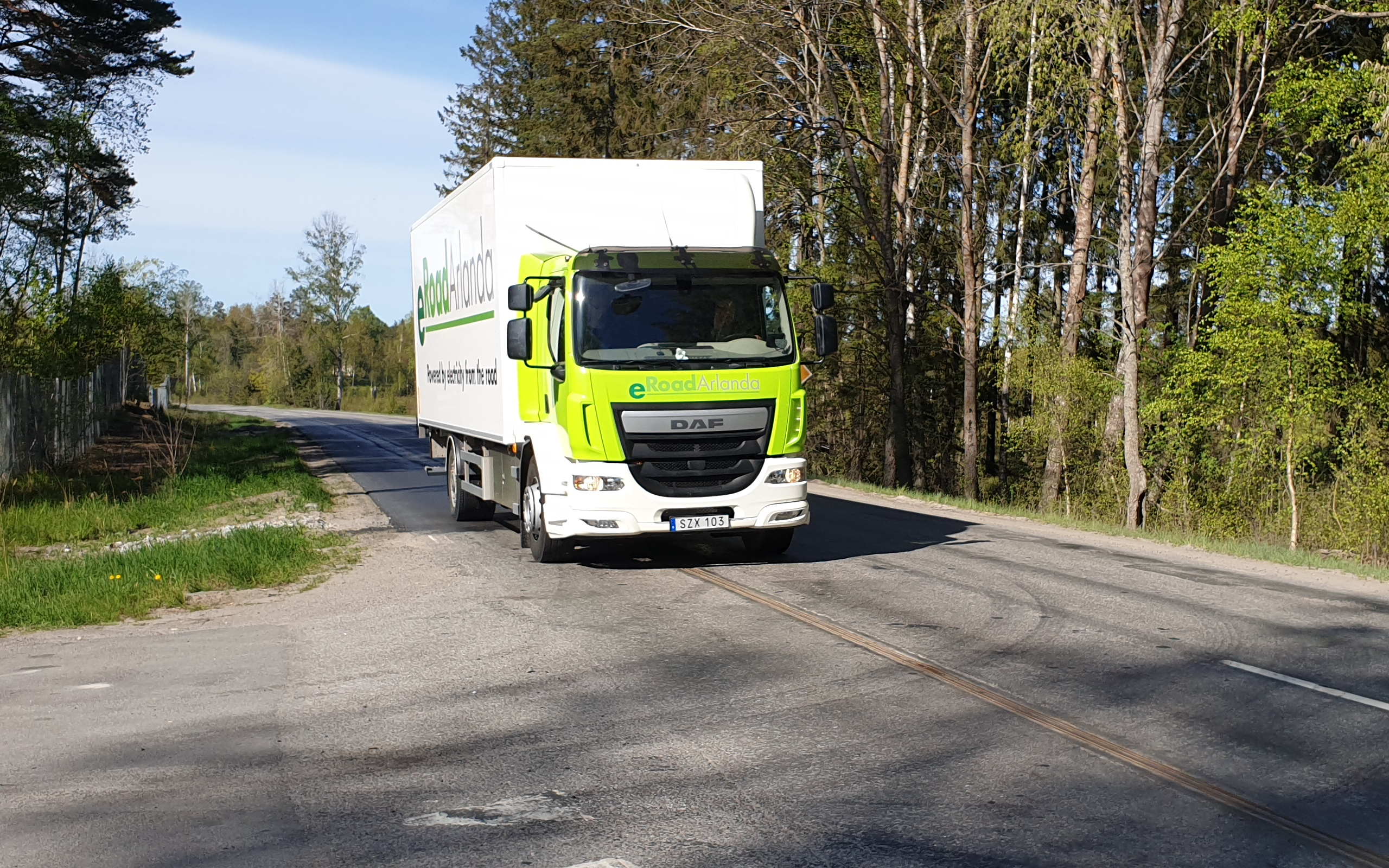 An electric truck driving over an electric road using Elways dynamic charging technology through a ground-level power supply, from the eRoadArlanda electric road project in Sweden.